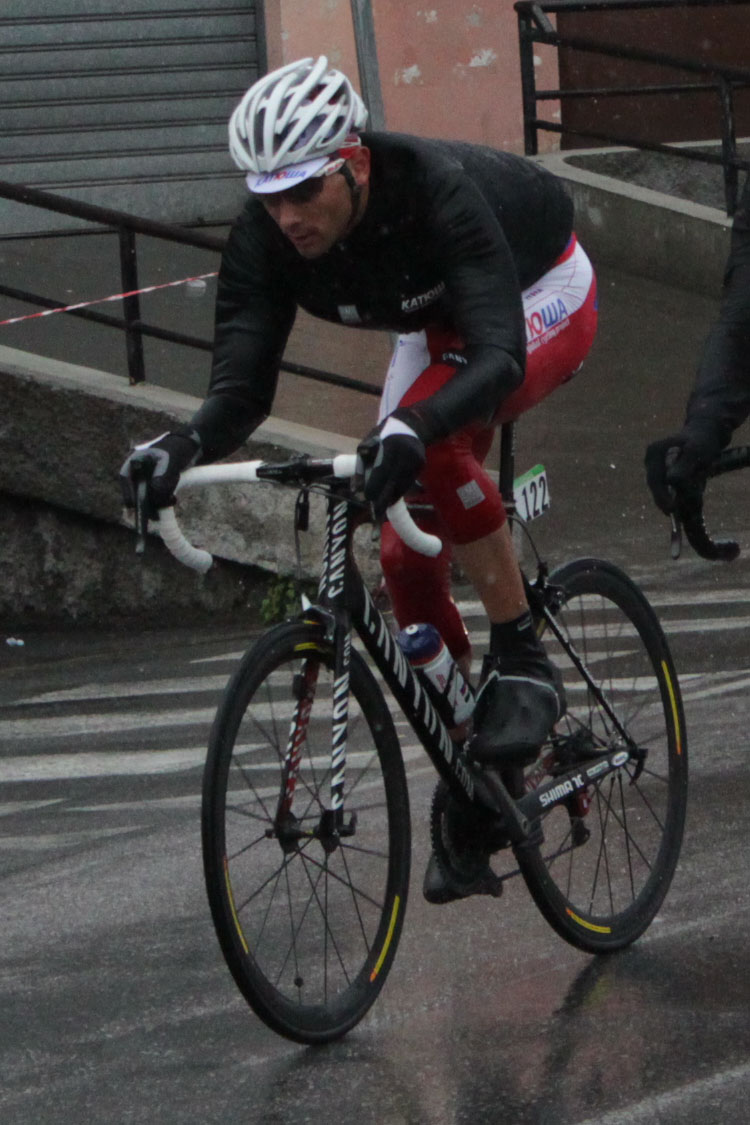 Maxim Belkov, Milan-Sanremo 2013, Savona